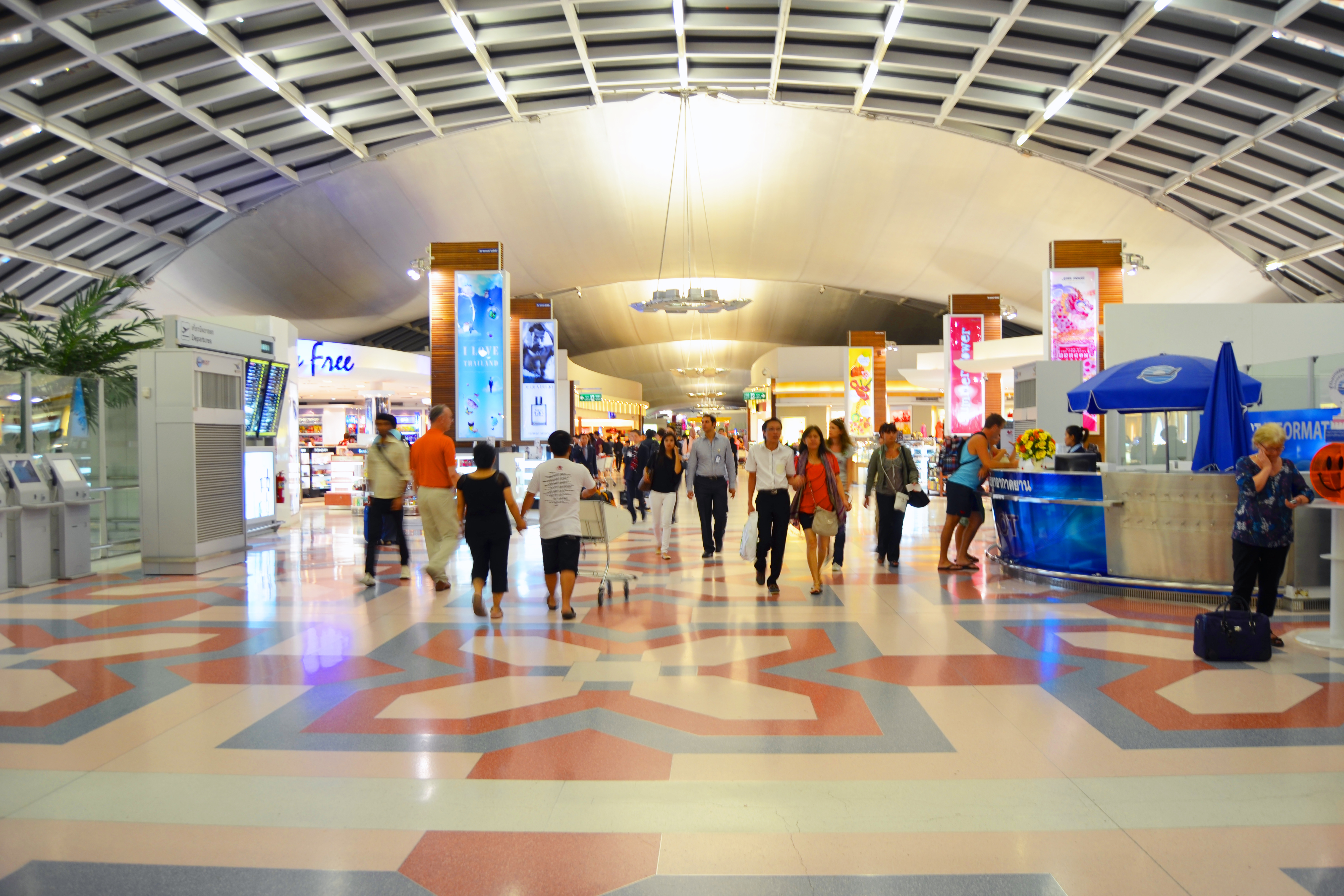 Suvarnabhumi Airport Inside 1